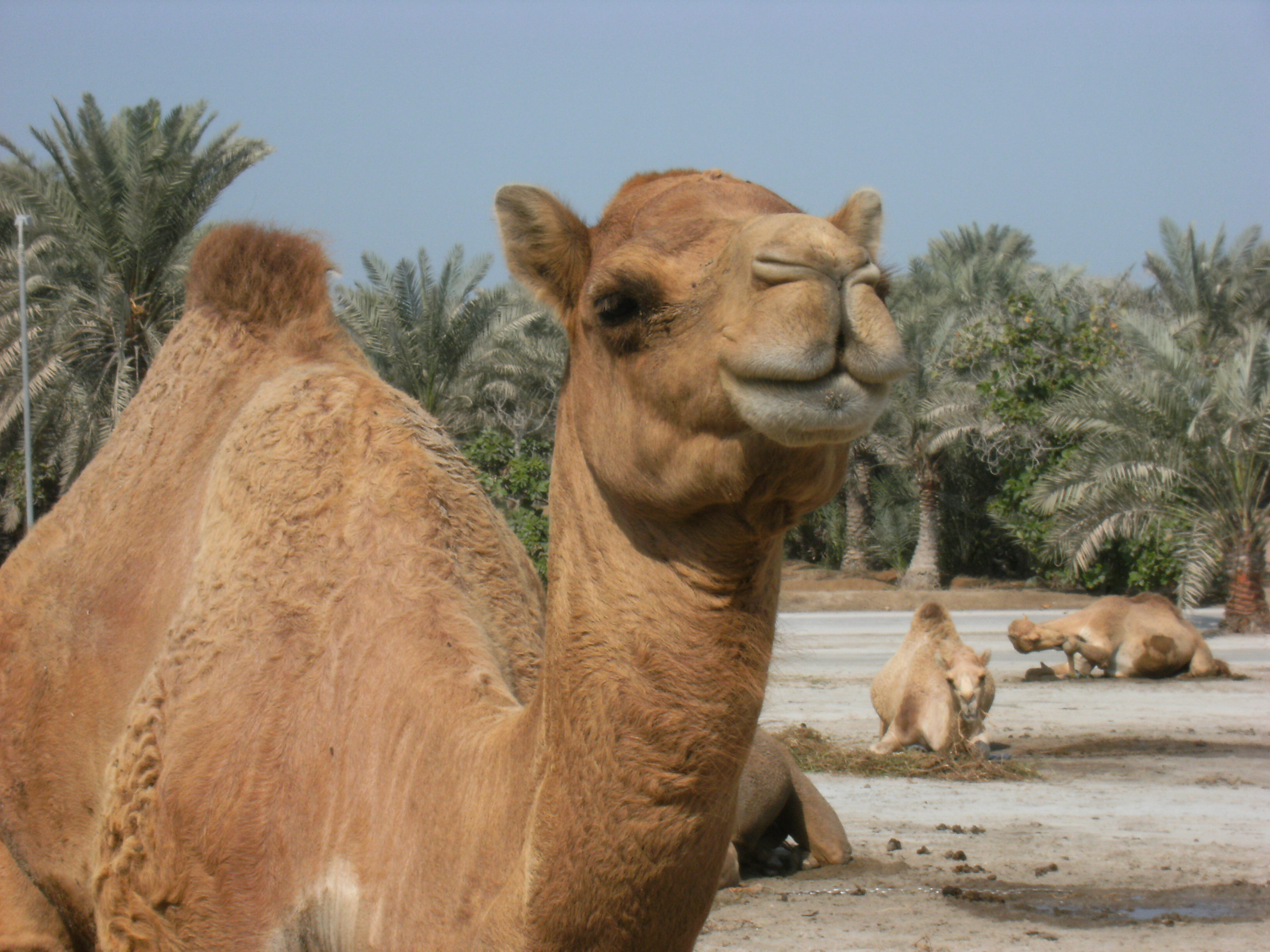 Camel close up.